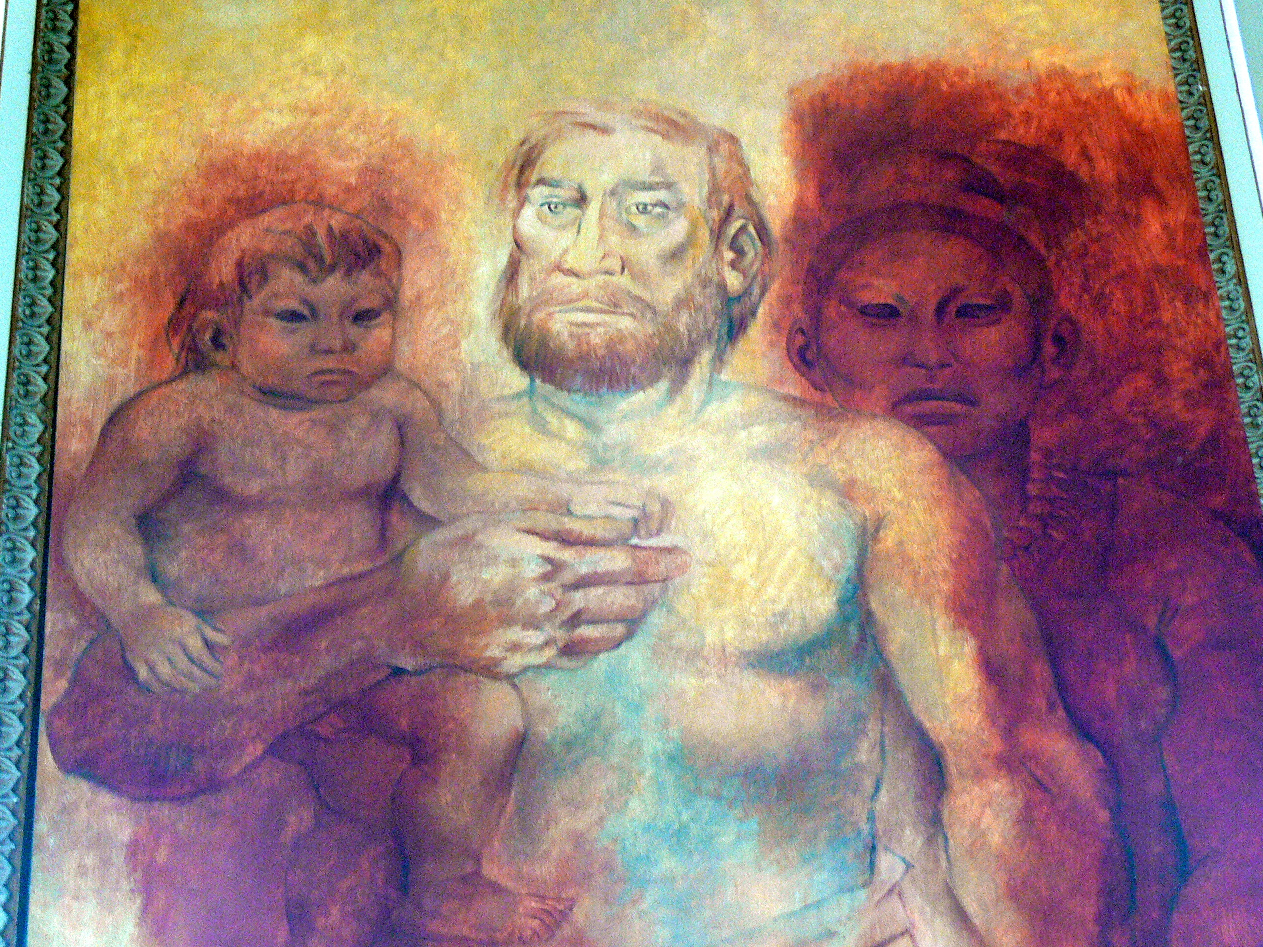 Merida - Palacio de Gobierno - Murals by Fernando Castro Pacheco: Gonzalo Guerrero, a shipwrecked Spanish mariner, married a Maya woman and later fought with the Mayas against the conquista.